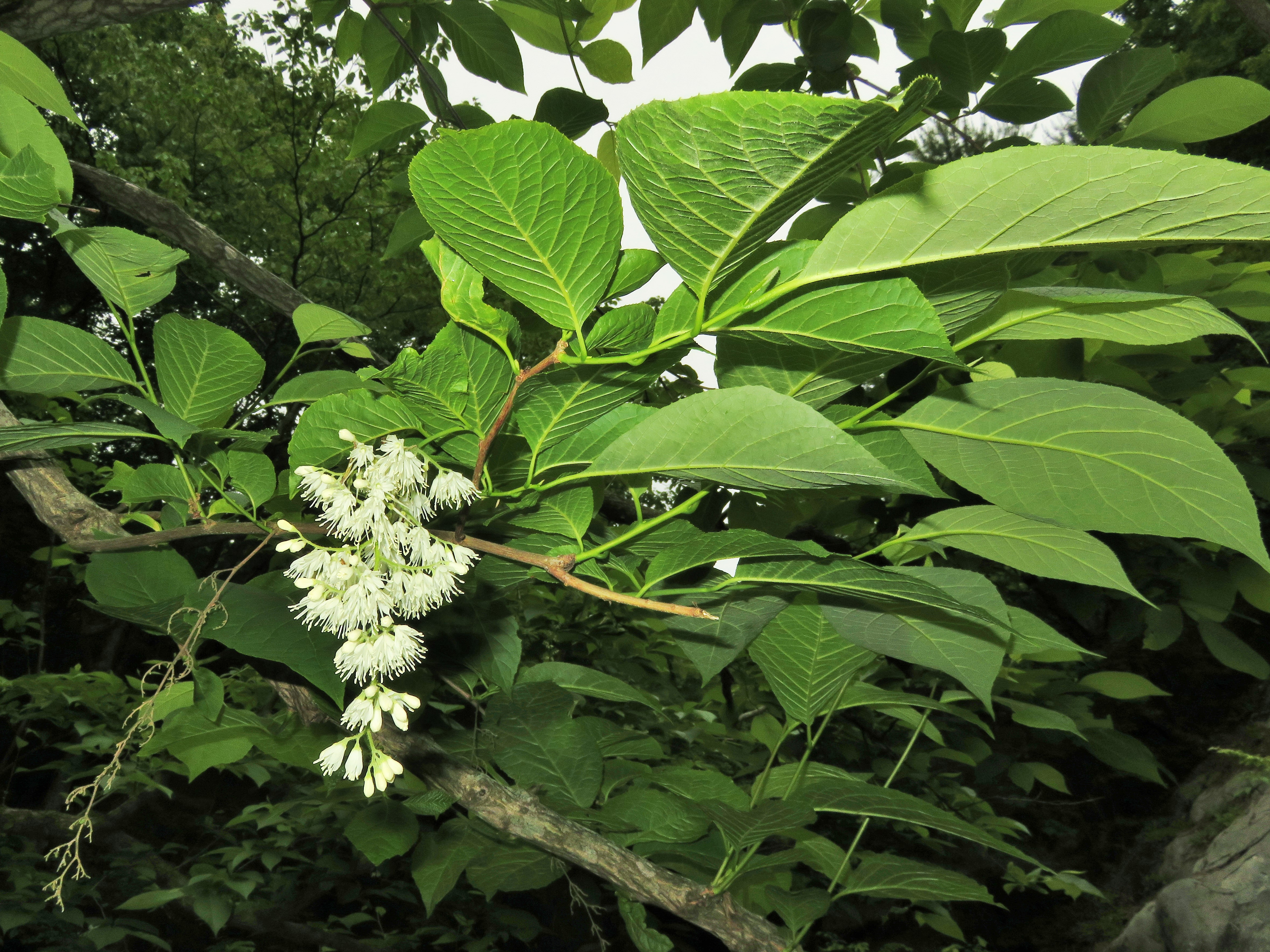 Pterostyrax hispidus, Hama-dori area, Fukushima pref., Japan